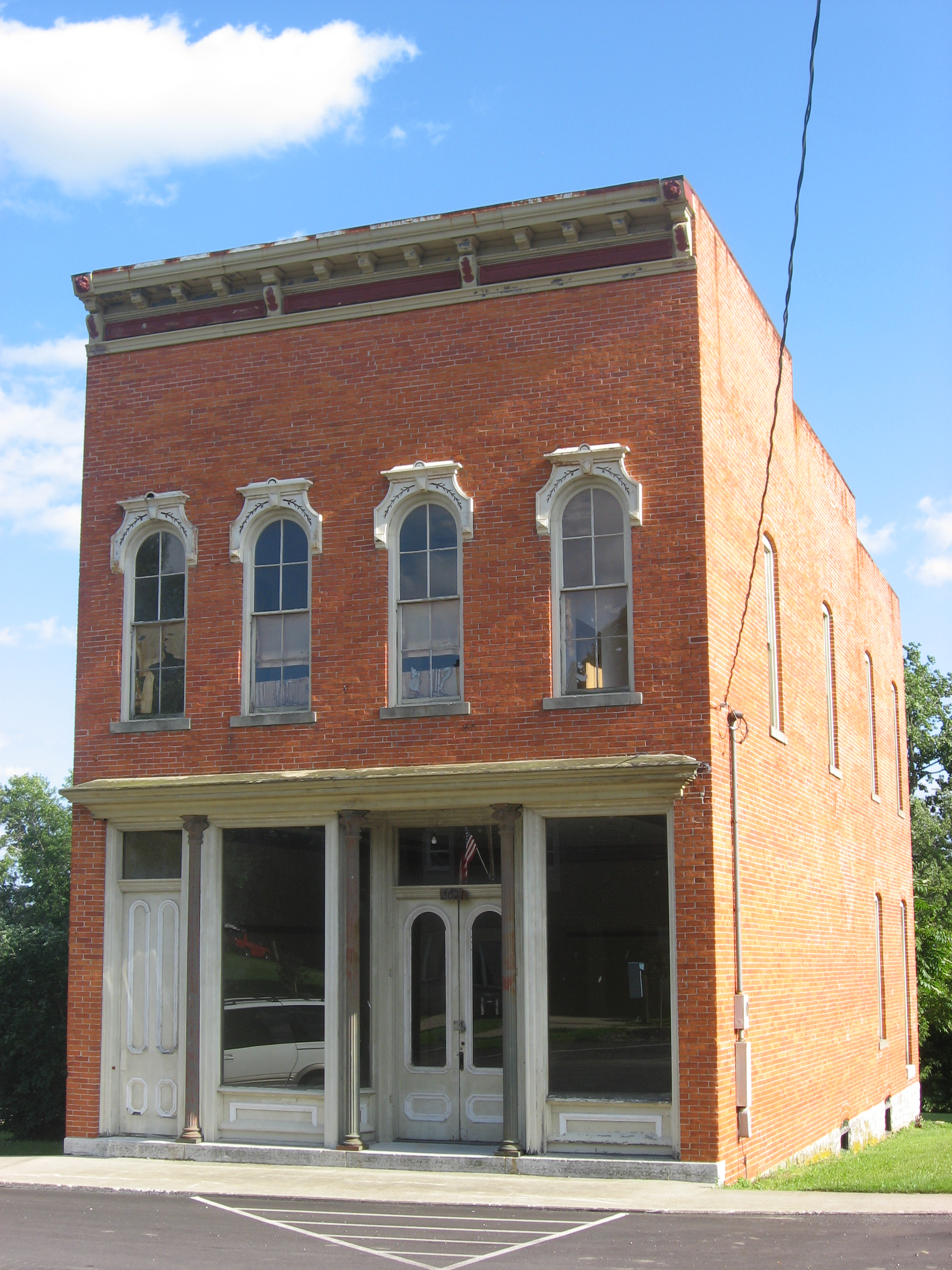 Front of the building at 207 Main Street in Gilboa, Ohio, United States. It is part of the Gilboa Main Street Historic District, a historic district that is listed on the National Register of Historic Places.